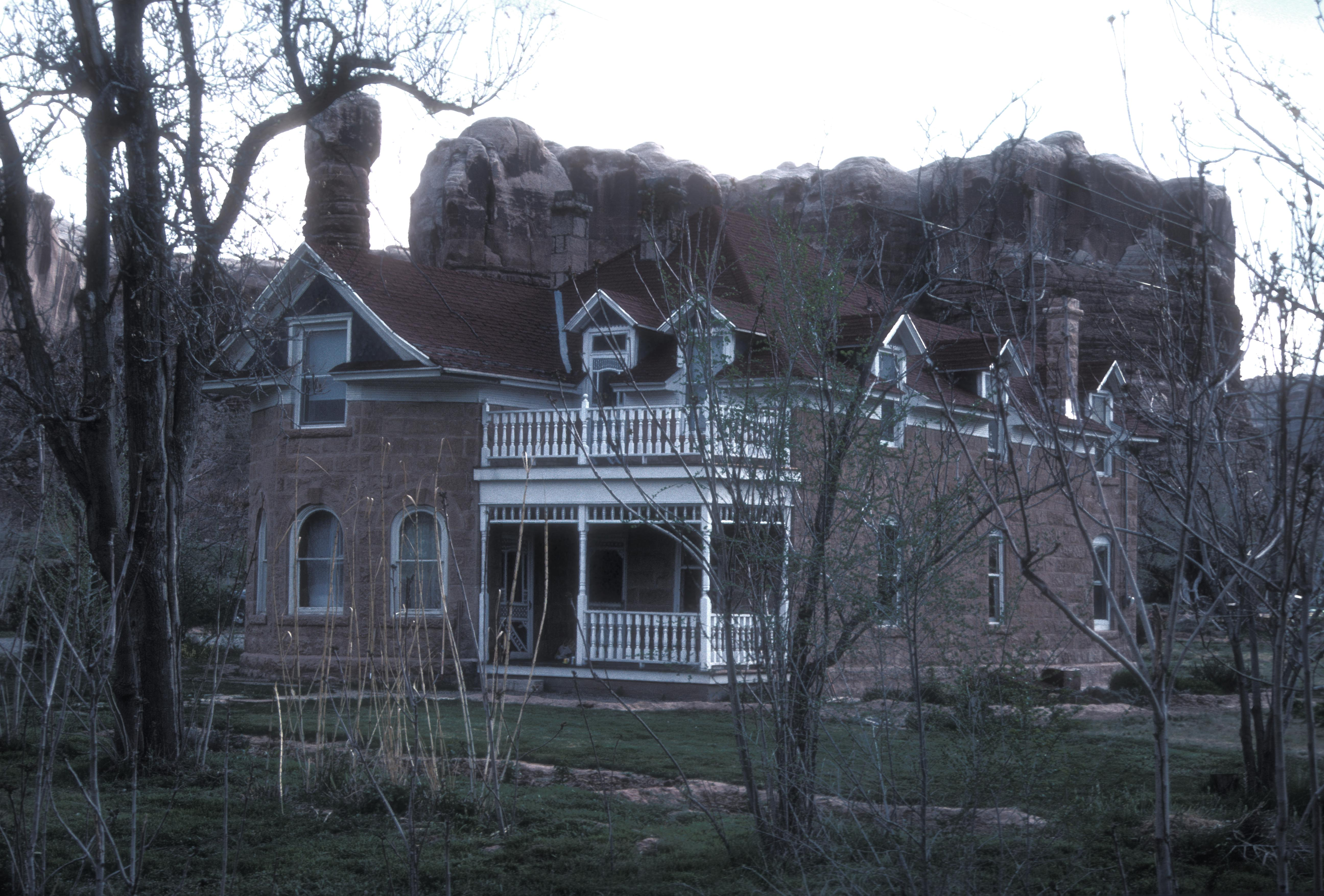 1903- SCORUP WAS A CATTLE RANCHER - The John ALbert Scorup House is in Bluff, San Juan County, Utah, USA